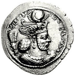 Coin of Bahram IV, an Sasanian king.